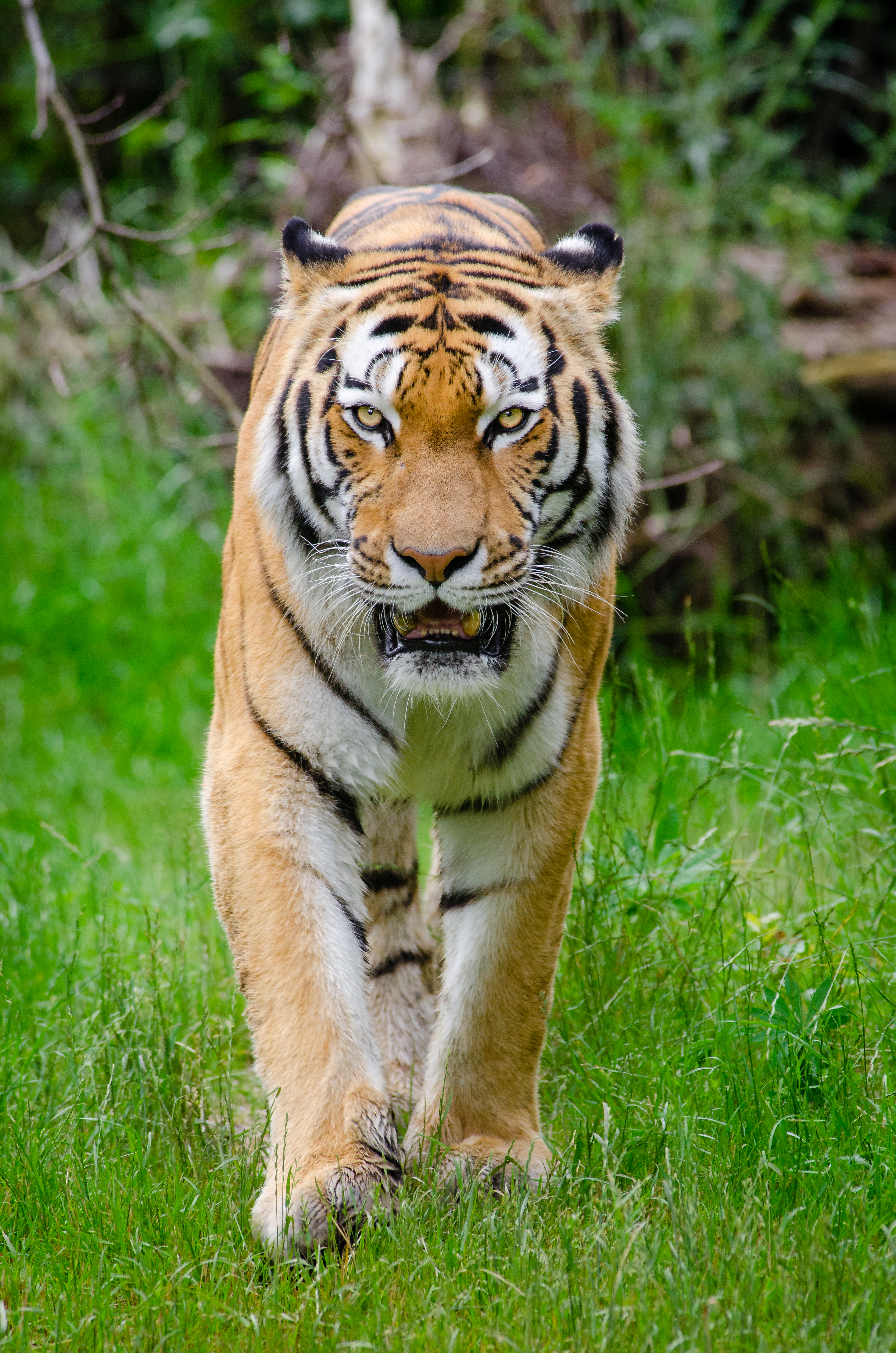 Tiger El-Roi from Zoo Duisburg, Germany.